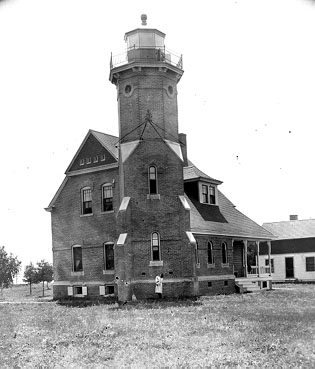 Squaw Island Light U.S. Coast Guard Historic Light Station Information & Photography: Michigan